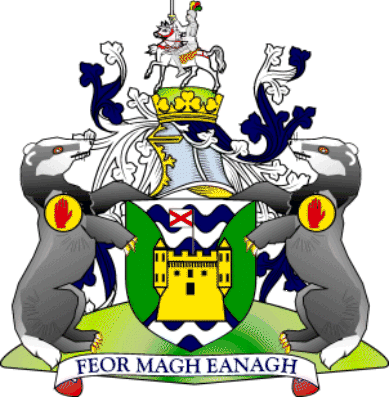 Coat of arms of Fermanagh County Council, Northern Ireland